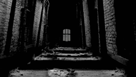 Bożenna Biskupska. Wideo. Tunel.